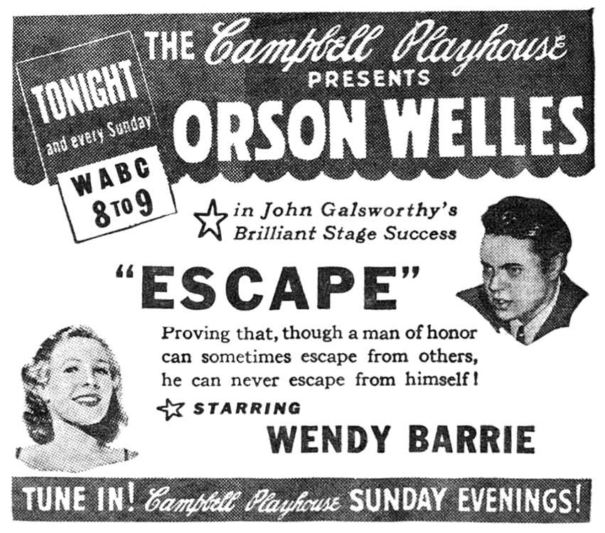 Newspaper advertisement for The Campbell Playhouse presentation of "Escape" starring Wendy Barrie